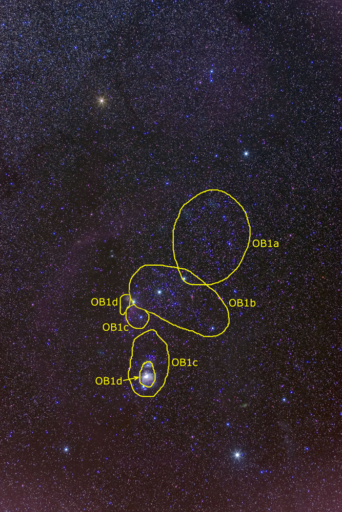 mapped image of Orion, with all structures of Orion OB1 association